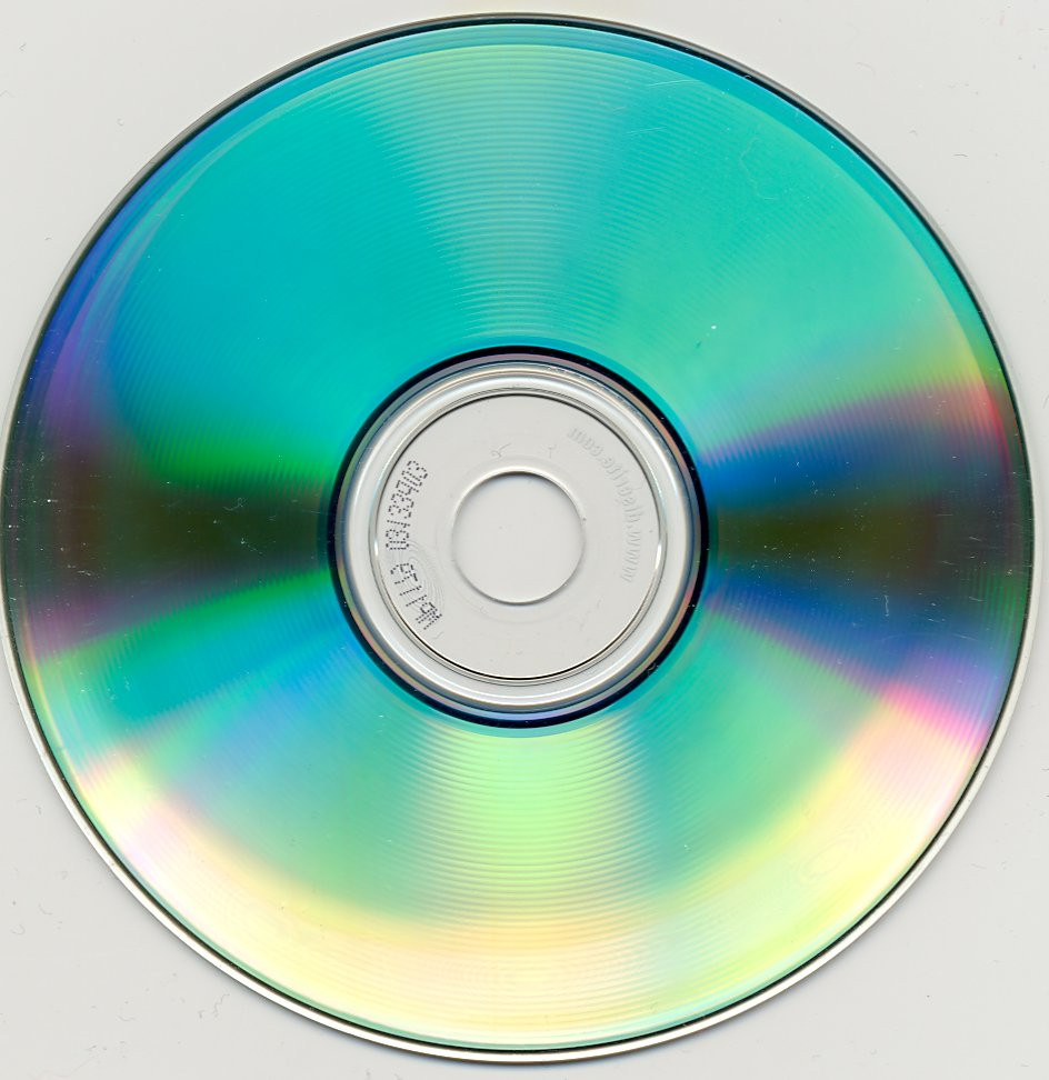 A CD-R where the dye has degraded, making it (and the data on it) unusable.